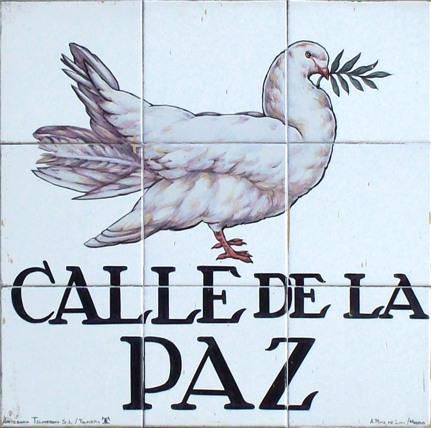 Sign of Calle de la Paz (literally "Peace Street") in Centro district in Madrid (Spain).